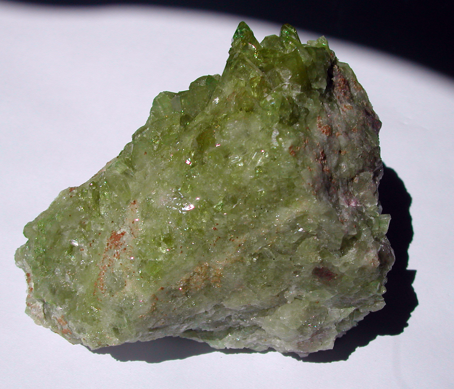 Vesuvianite from Jeffrey Mine (located in Asbestos, Quebec Province, Canada).